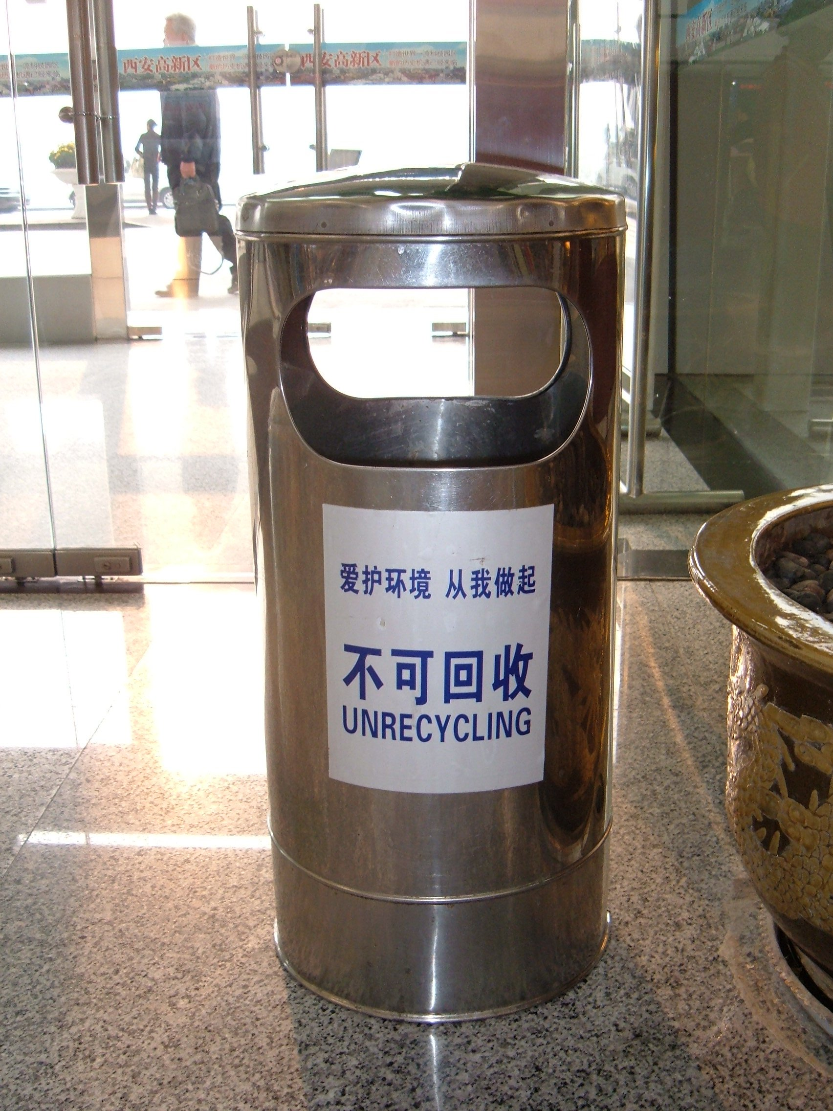 "Unrecycling" (trash) bin at the Xi'an Xianyang International Airport in Xi'an, PRC.